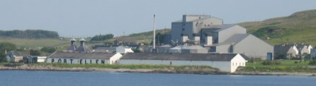 Islay Port Ellen.